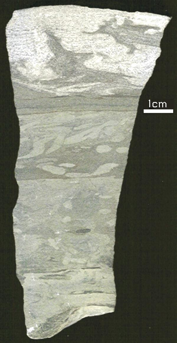 Section of hand sample of dolomitic siltstone showing a flame structure at top. From I-71, exit 28, Kentucky. Probably Upper Ordovician Saluda Dolomite. Bioturbation also evident. Collected 1999.